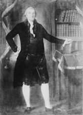 Uriah Tracy